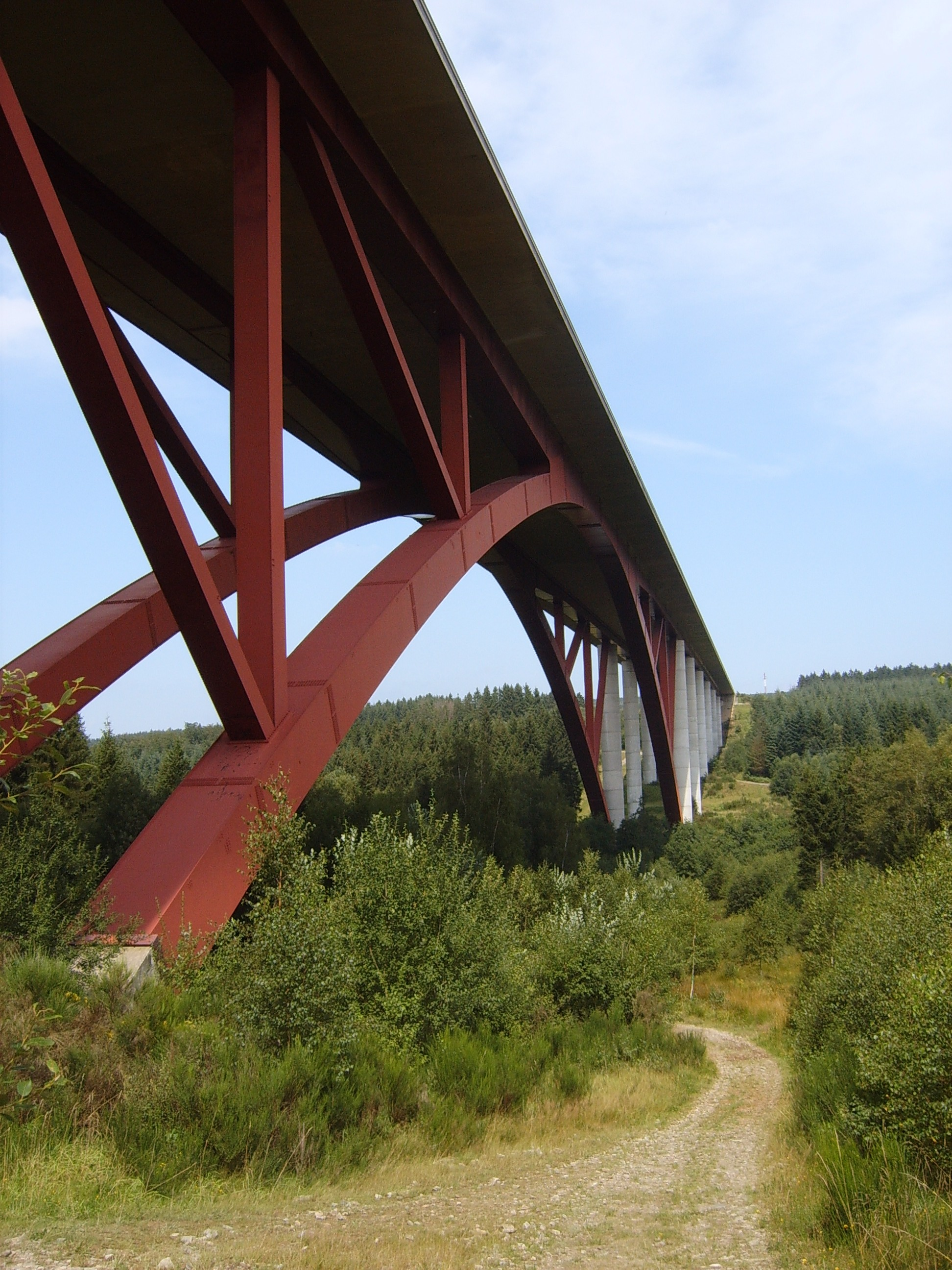 The Eau Rouge motorway viaduct on the A27 between Verviers and Malmedy.